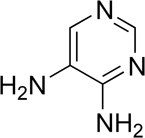 chemical structure of 4,5-diaminopyrimidine